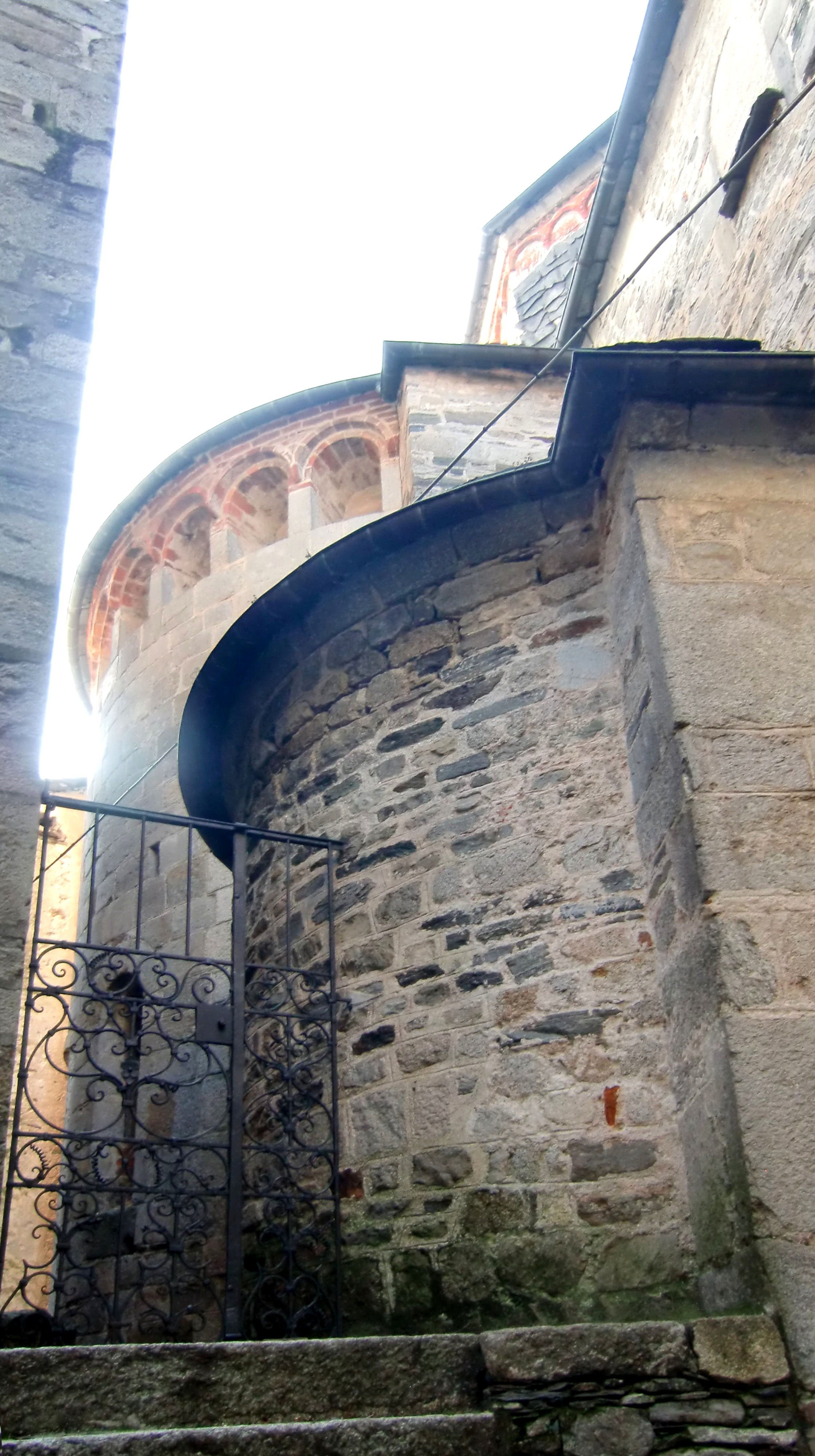 Orta San Giulio, Basilica, the apses